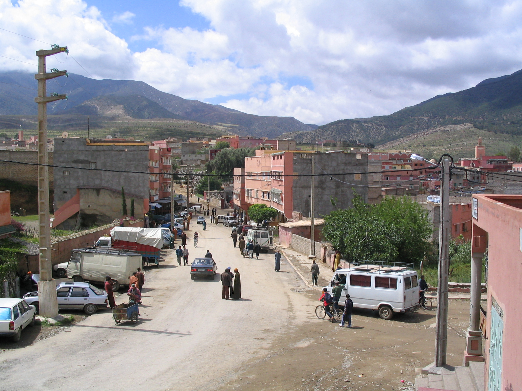 Uploaded by owner. Village of Amizmiz, Morocco.